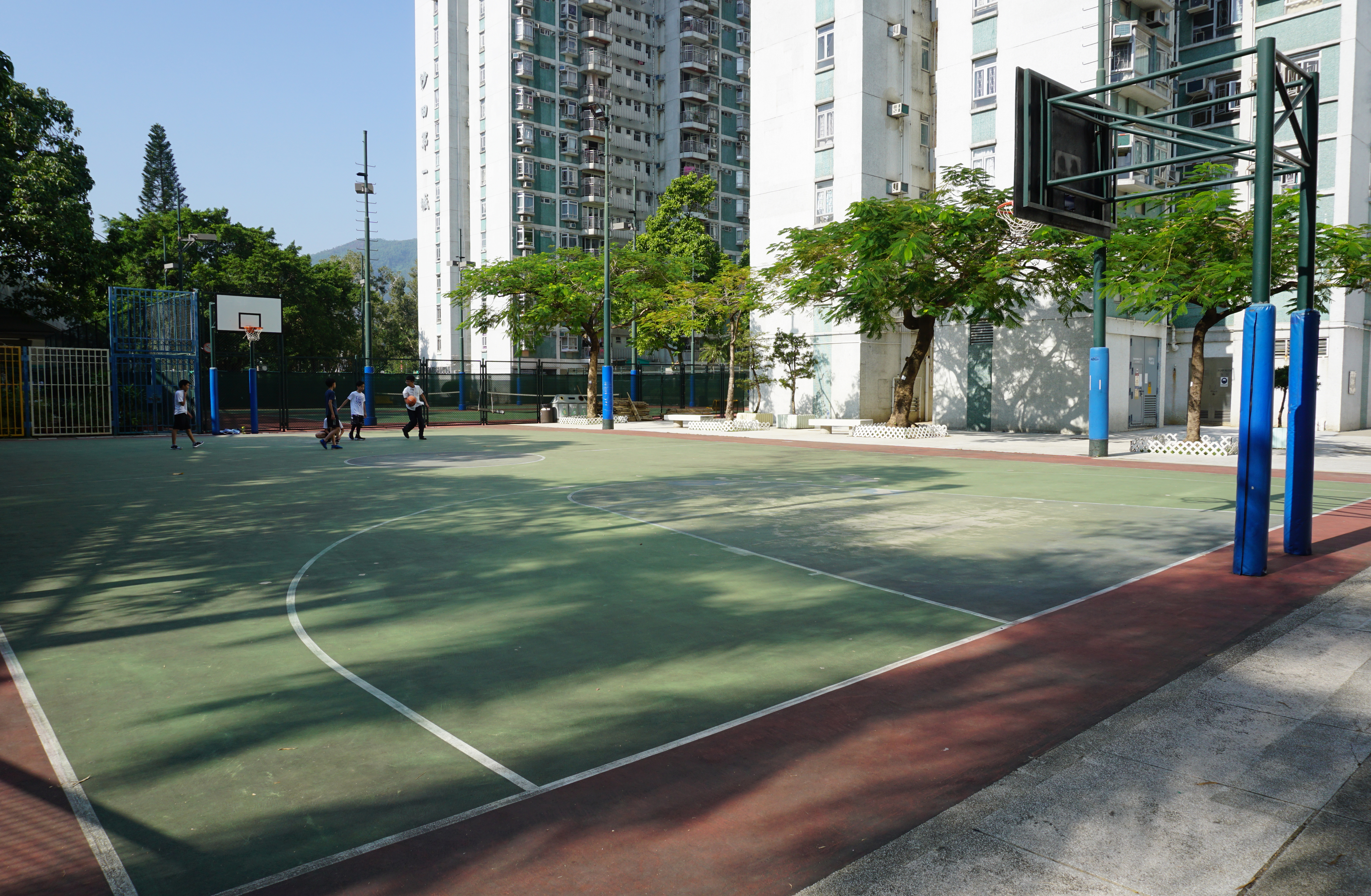 City One in Shatin, Hong Kong.